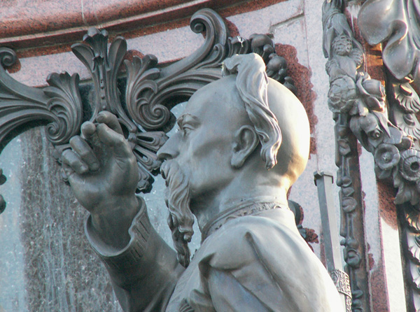 Detail of the monument to Ekaterina the Great in Krasnodar (former Ekaterynodar). Second ataman of Black Sea cossacs shown.